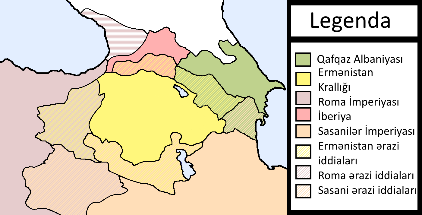 Map of the Southern Caucasus region and the surrounding in the 1st century b.c.e. (in Azerbaijani) Derivative work of